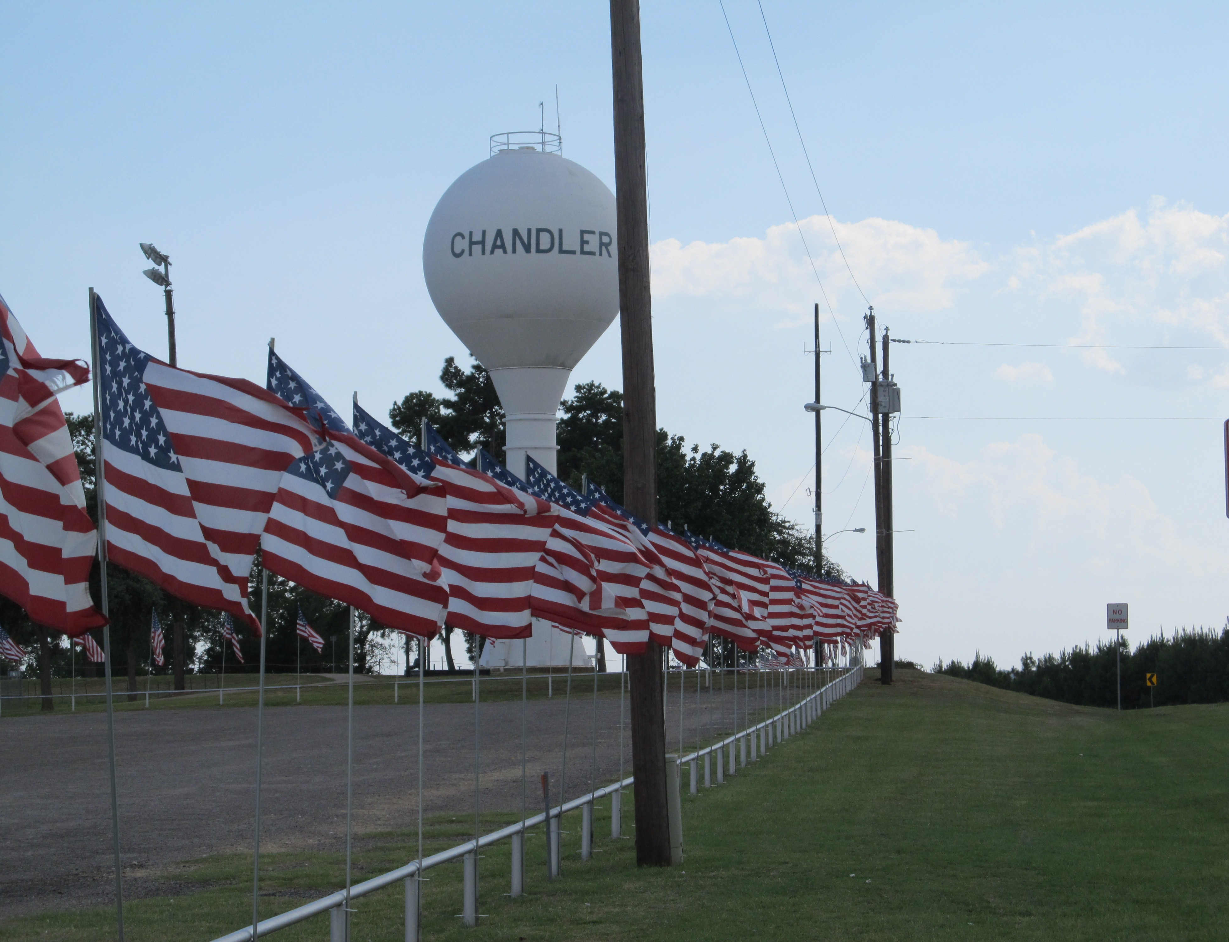 A patriotic display of American flags at Winchester Park in Chandler, Texas (US).